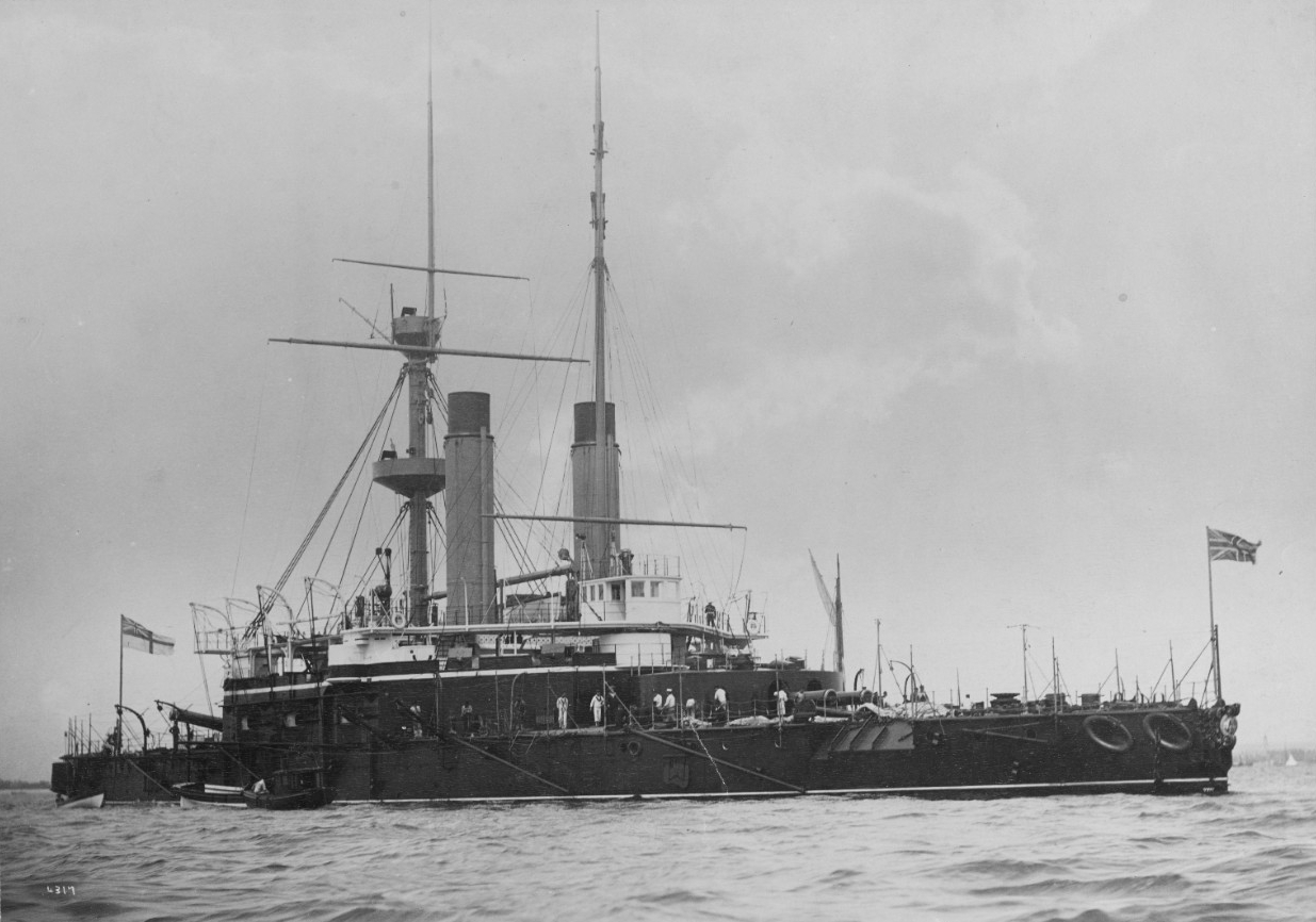 British battleship HMS Nile of 1888.